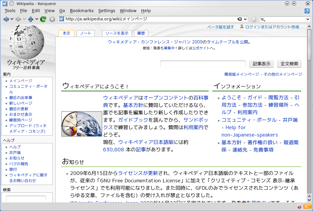 Konqueror. on openSUSE 11.2.